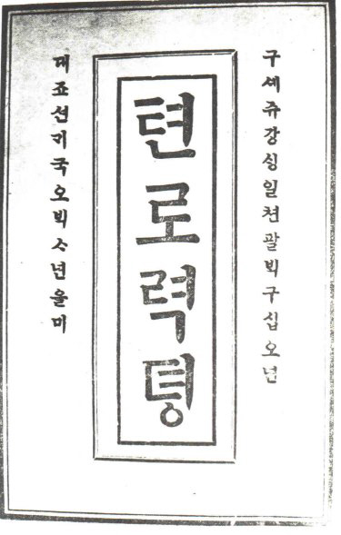 Cover of Pilgrim Progress in Korean, James S Gale, 1895